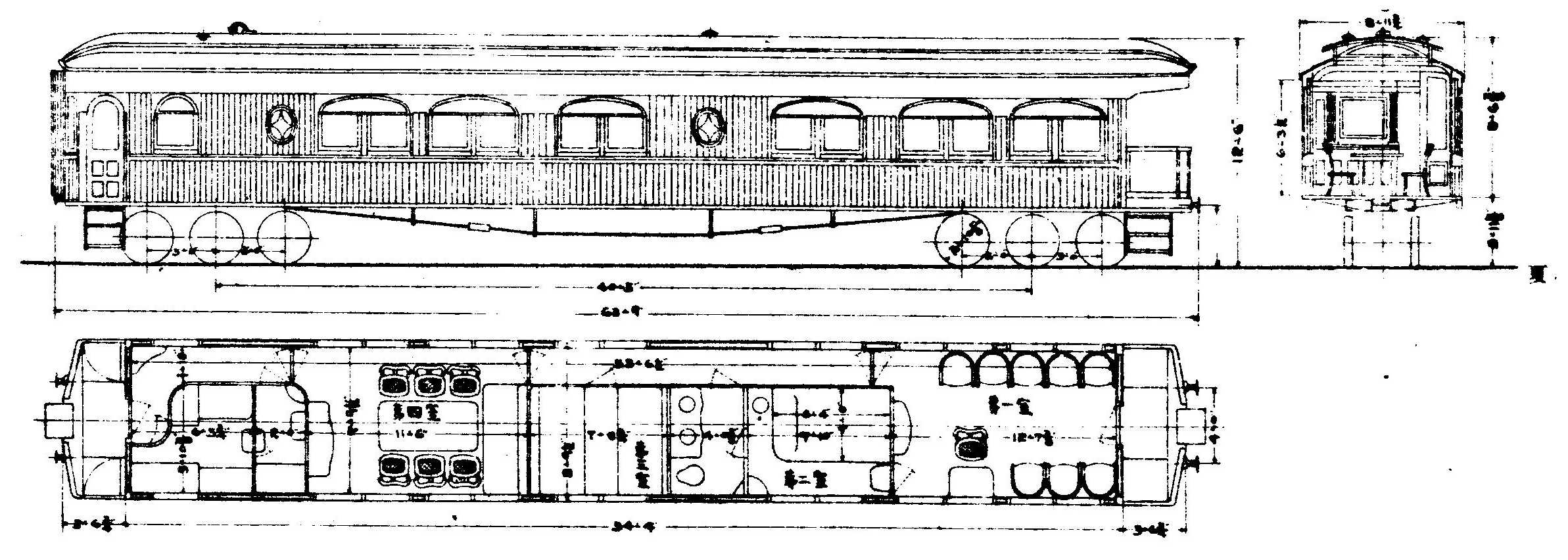 Type drawing of JGR Sutoku9000 type passenger car.